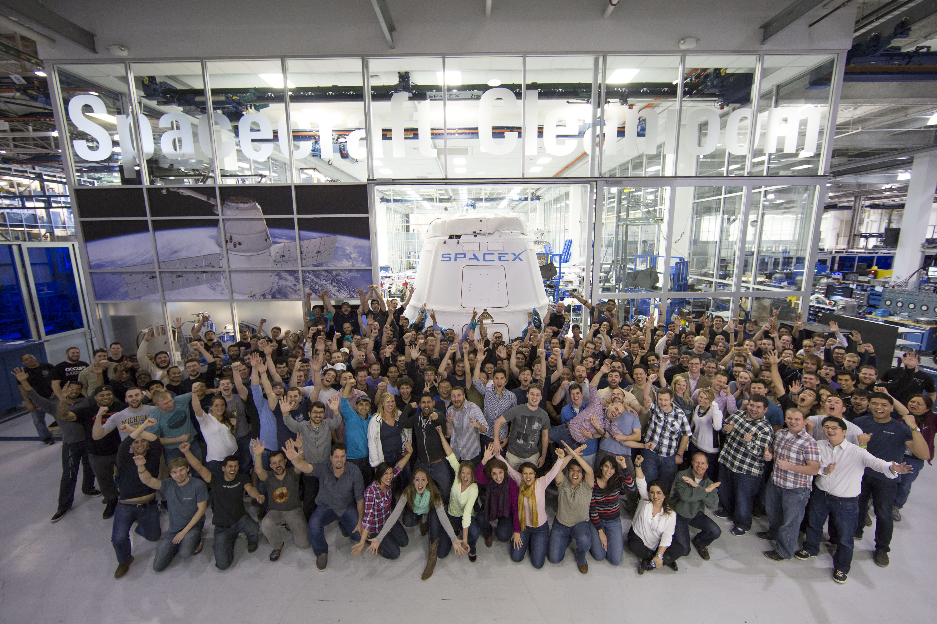 Dragon leaving SpaceX HQ in Hawthorne, California, February 23, 2015.